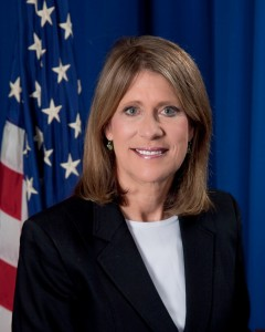 Official photo of Consumer Product Safety Commissioner Anne Northup (KY).